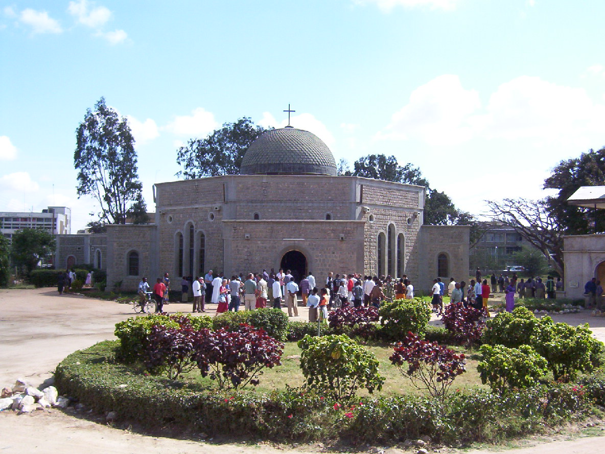 Dodoma's Cathedral of the Holy Spirit, Tanzania